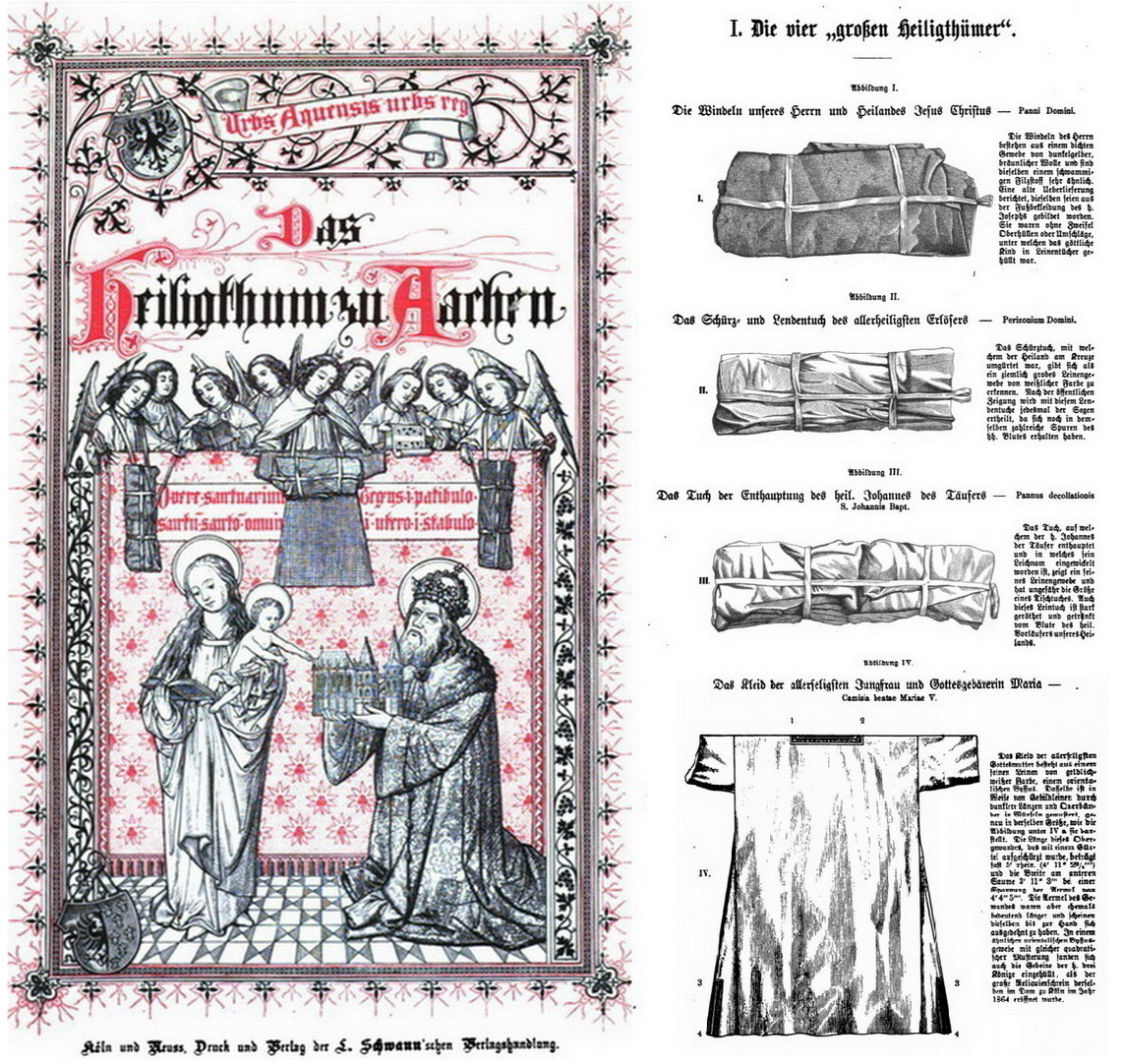 Montage of title page + 2 other pages from Das Heiligtum zu Aachen, Franz Bock's 1867 publication on the Aachen Cathedral treasures.